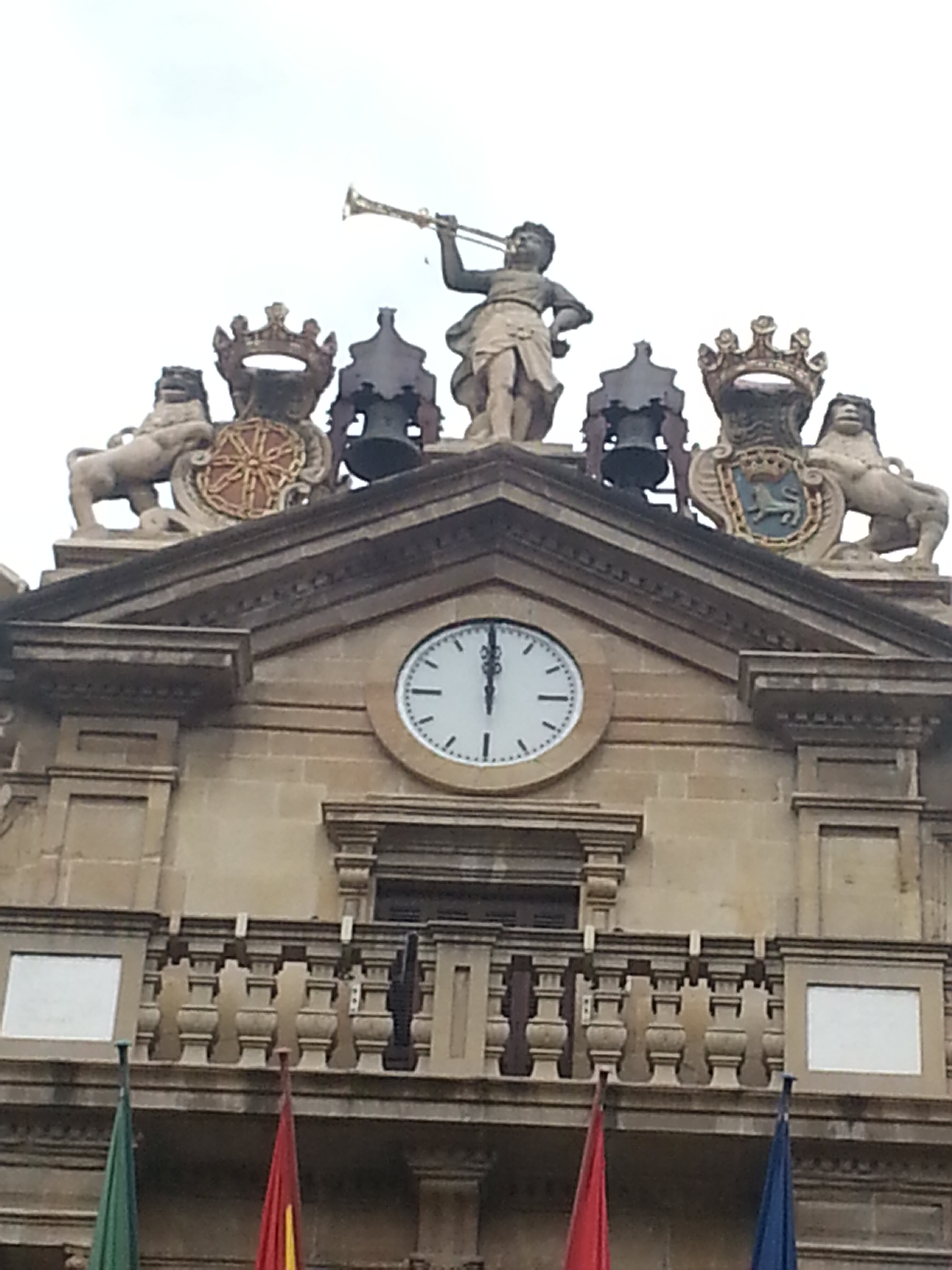 Spain